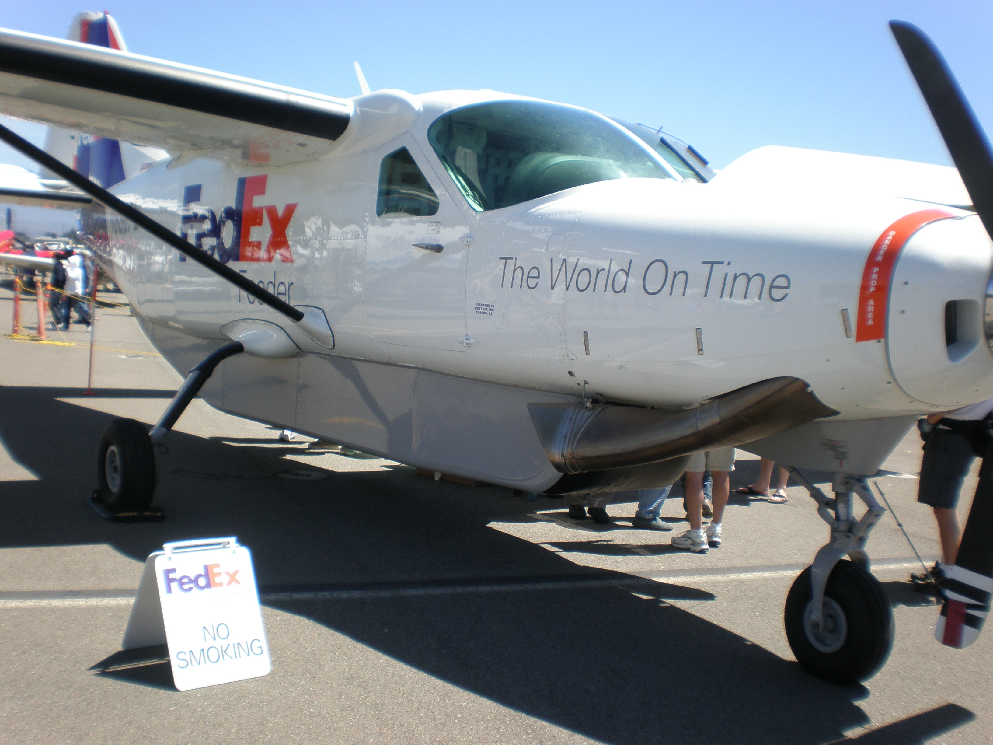 The starboard side of a FedEx Cessna 208B Grand Caravan at the Pacific Coast Dream Machines vehicle show at the Half Moon Bay Airport in Half Moon Bay, California.